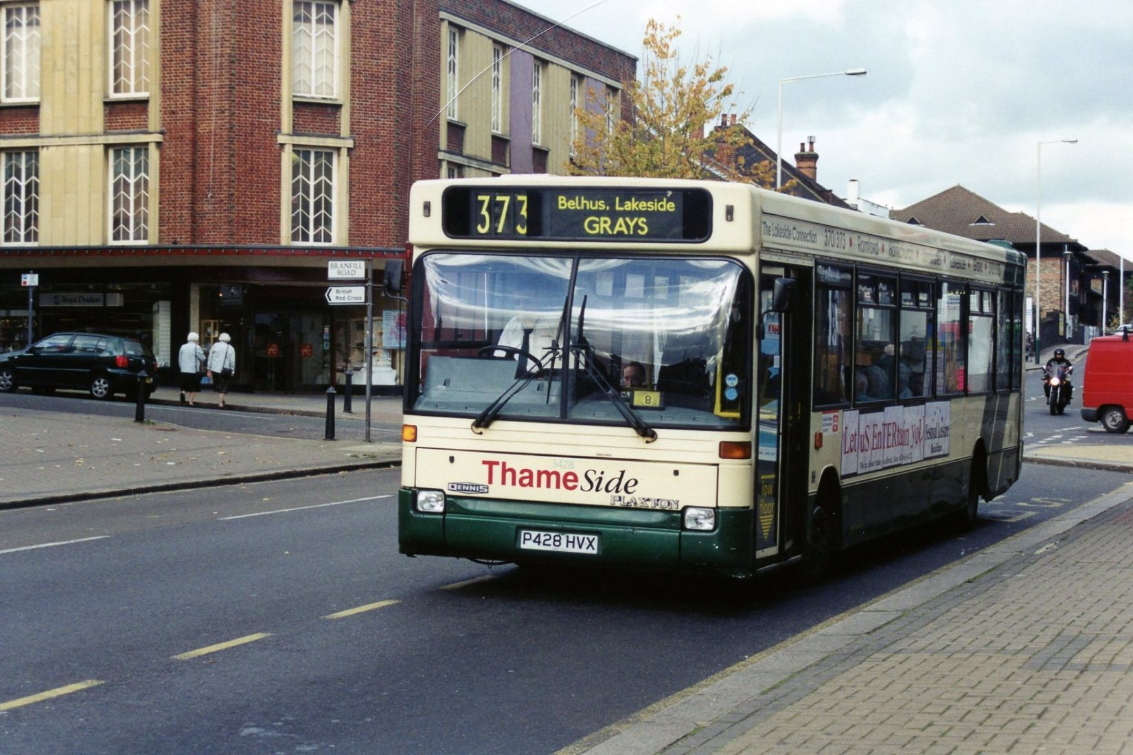 Arriva Shires & Essex (East Herts & Essex division) 3428, a Dennis Dart SLF with Plaxton Pointer bodywork, at Upminster in October 2000. It was delivered new to County Bus & Coach in November 1997, who by that time were part of the Cowie Group. County had been renamed Arriva East Herts & Essex Ltd in 1998 as part of the wider Cowie to Arriva corporate re-branding, but 3428 is seen here still in the Cowie style of County Bus & Coach livery, comprising a dark green and cream base with Cowie corporate style diagonal stripes at the rear ('ThameSide' being the brand name used by County for services operated out of Grays garage).